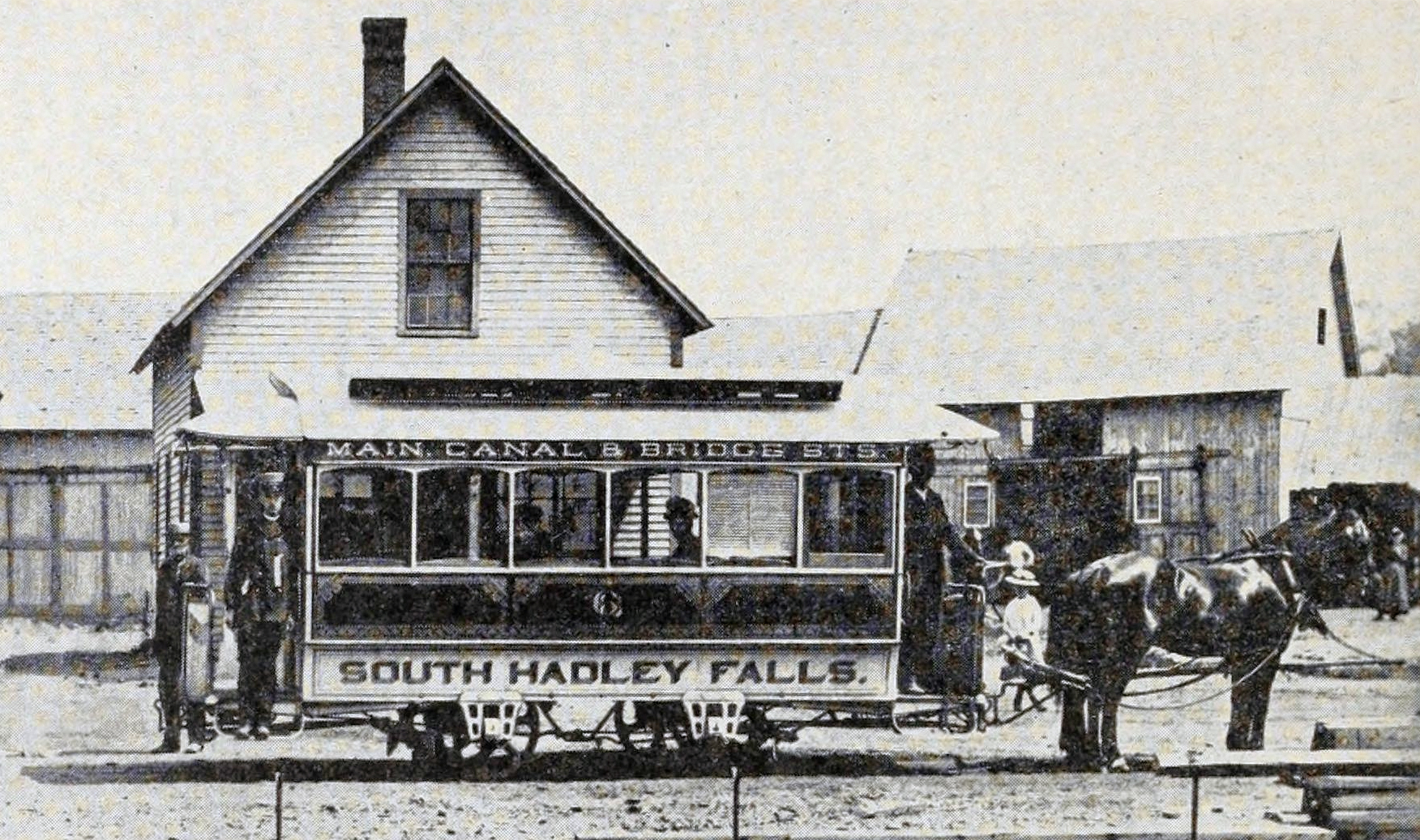 A horsecar for the South Hadley Falls line of the Holyoke Street Railway, in the late 19th-century.